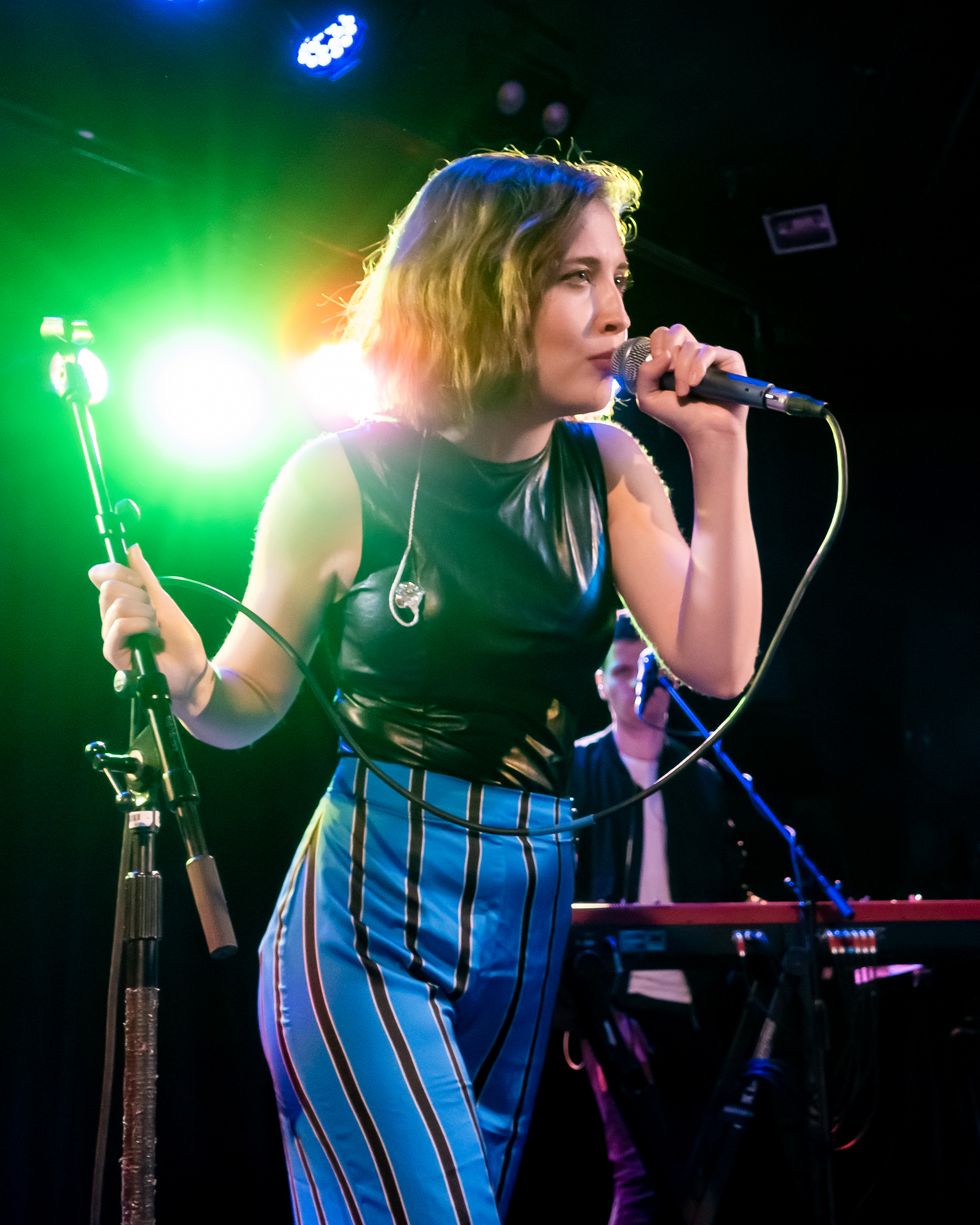 Alice Merton performing live at The Roxy theatre in West Hollywood, Los Angeles, California, on Wednesday, October 3, 2018. I believe this was the first show of her Fall/Winter 2018 U.S. tour.